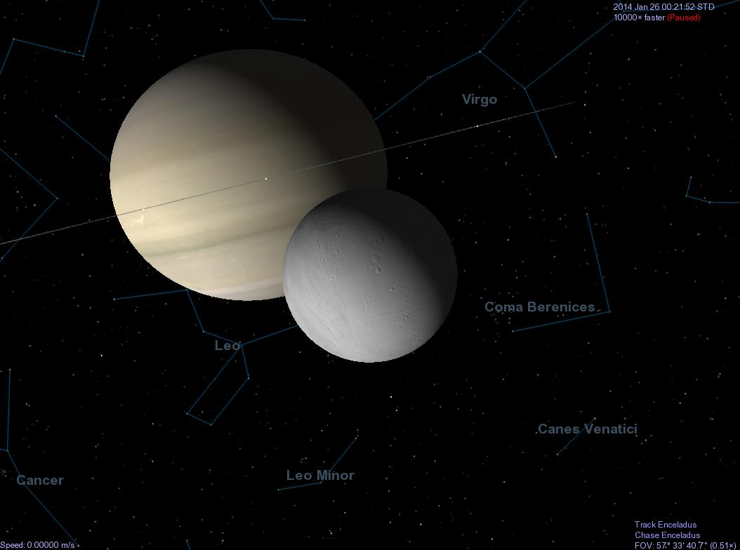 View of Saturn and its moon Enceladus